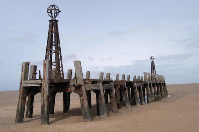 Still standing